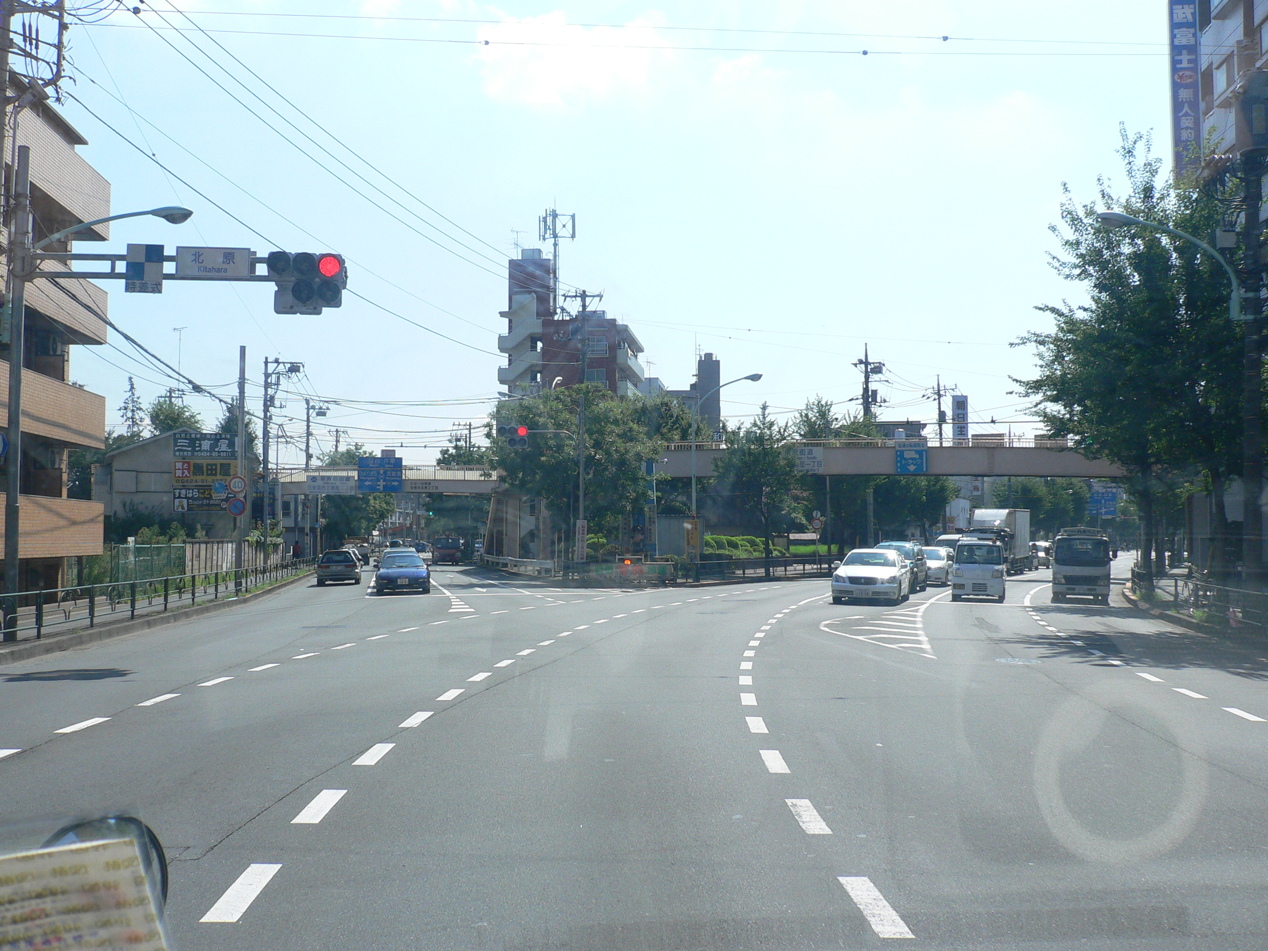 Kitahara crossing (所沢街道・新青梅街道), Nishi Tokyo C, Tokyo M.